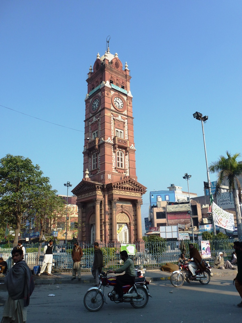 Clock Tower in Faisalabad